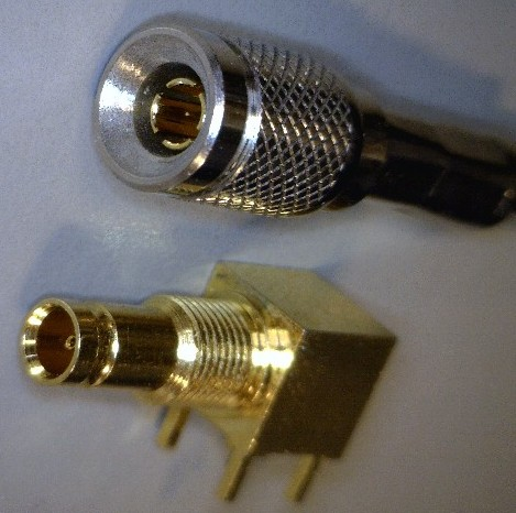 DIN 1.0/2.3 75Ω mating connector